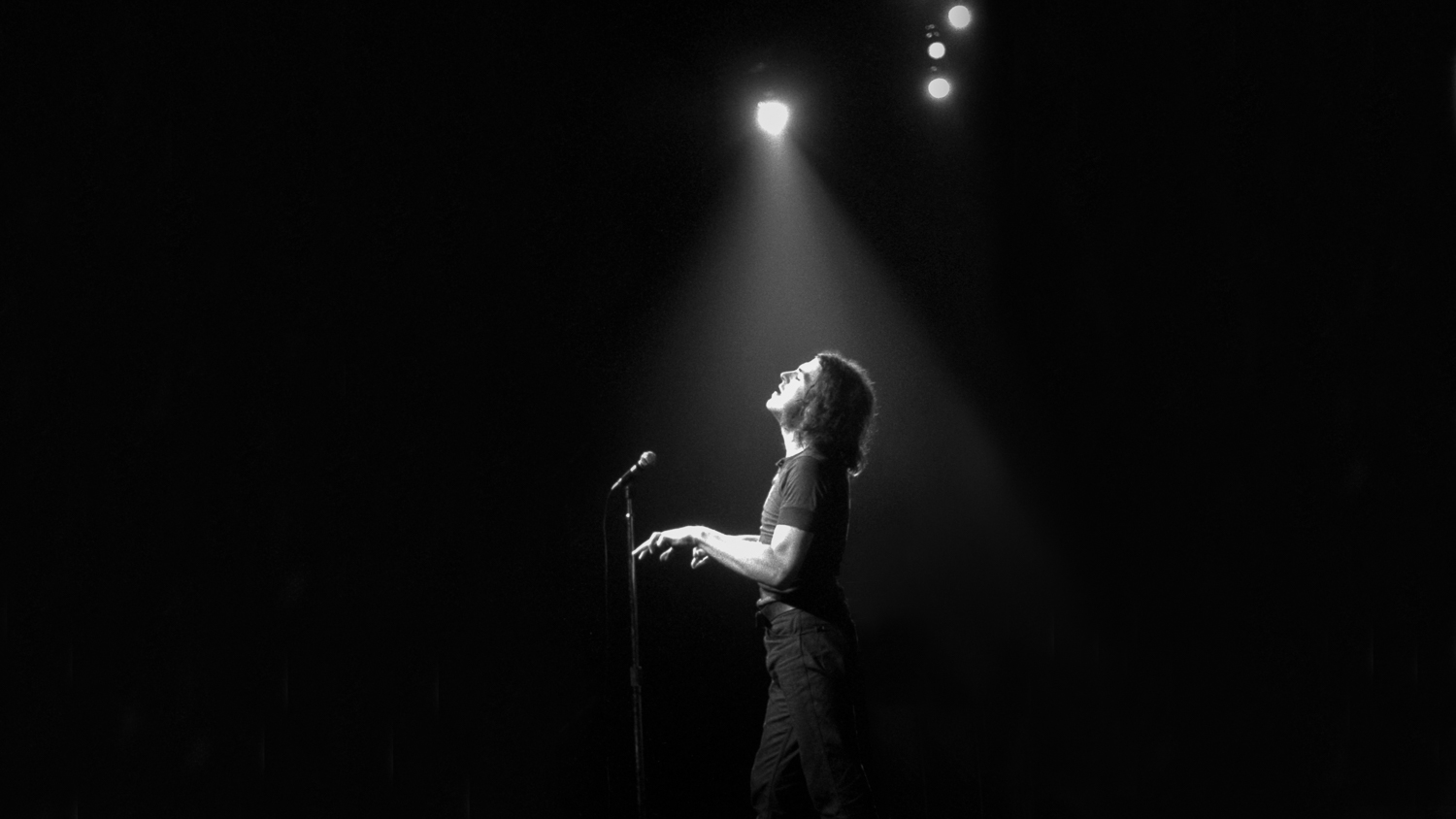 B&W photograph by Linda Wolf of Joe Cocker during the Joe Cocker: Mad Dogs & Englishmen Tour